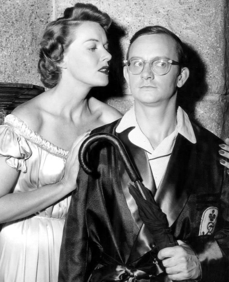 Publicity photo of Wally Cox and Angela Greene from the television program The Adventures of Hiram Holliday.